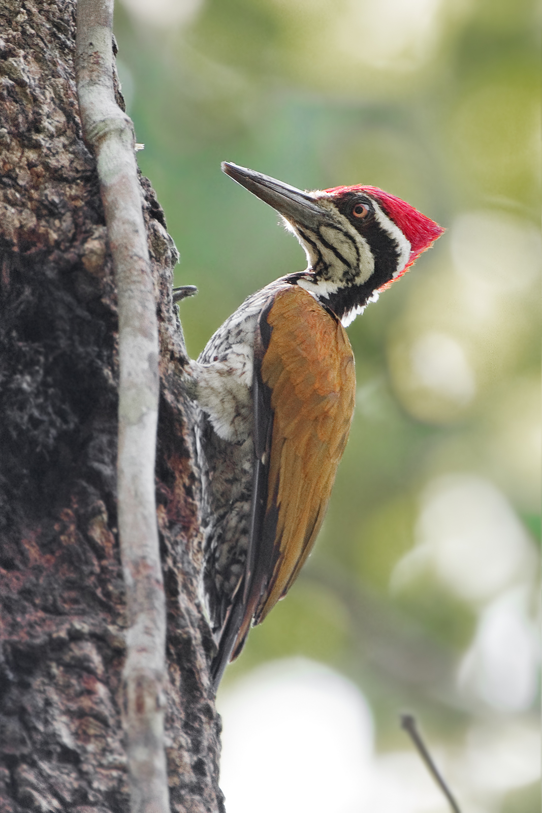 Greater Flameback (Chrysocolaptes guttacristatus), Kaeng Krachan, Phetchaburi, Thailand